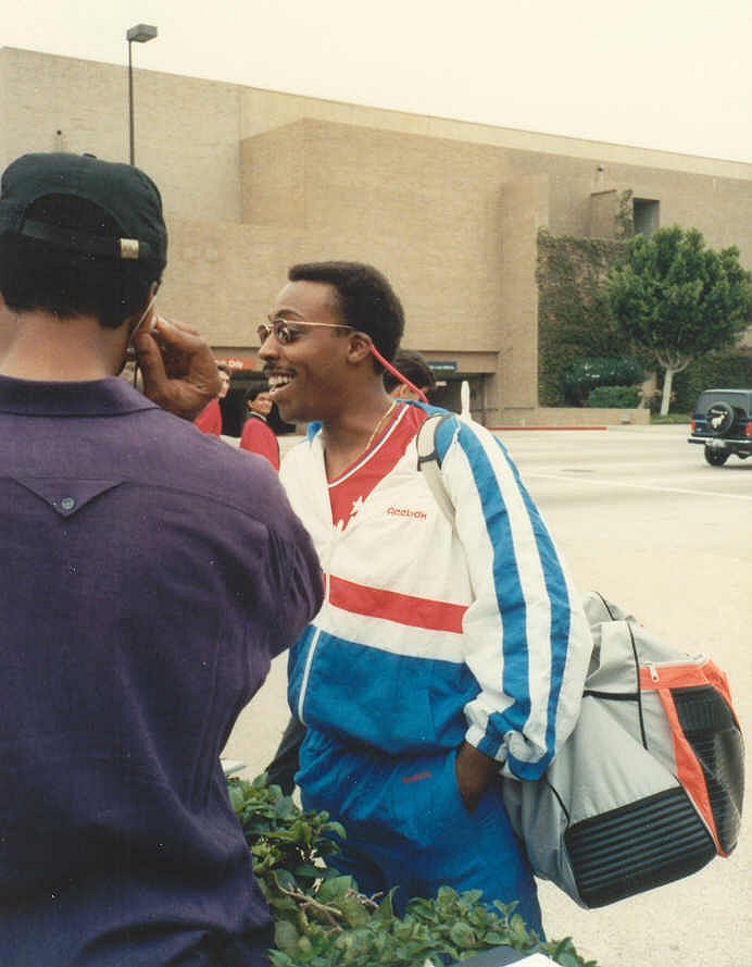 Arsenio Hall at the 41st Annual Emmy Awards